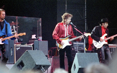 Bob Dylan at Lida Festival in Stockholm, Sweden, in 1996. Photo by Henryk Kotowski.